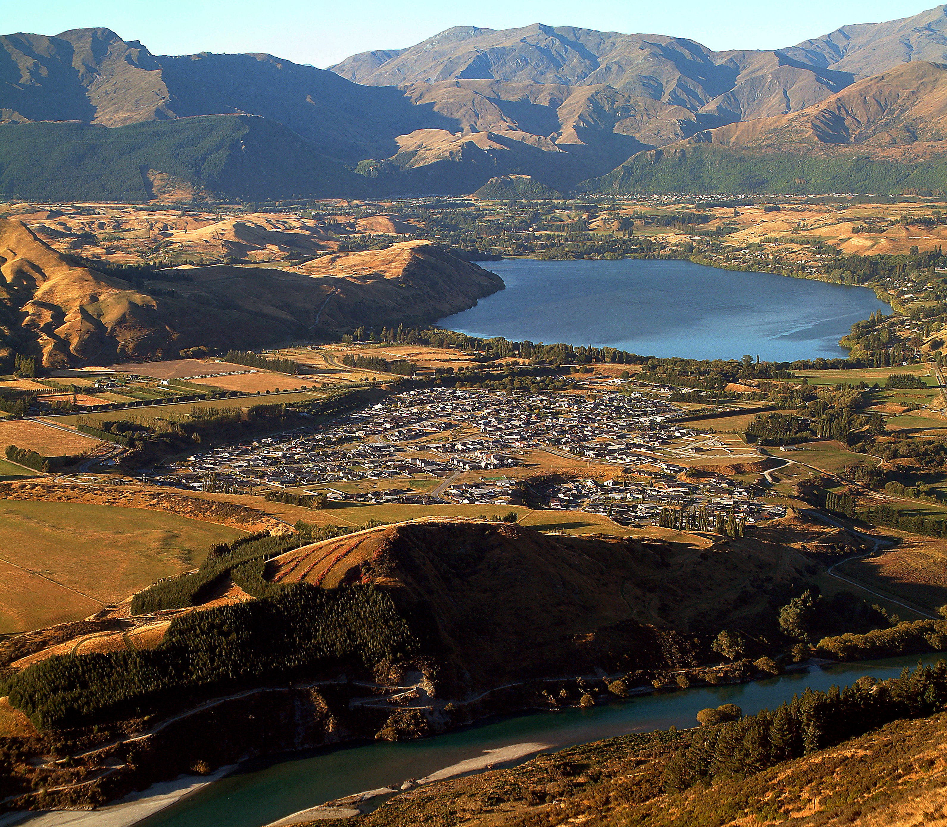 View of Lake Hayes Estate and Lake Hayes from The Remarkables. Includes the Kawarau River in foreground and Arrowtown in the distance. The trail next to the river is the Queenstown Trail. The trail also circles around the lake.